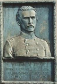 Bronze relief portrait of Brig. Gen. William W. Orme by T. A. R. Kitson at Vicksburg National Military Park, erected in September 1917, NPS image.